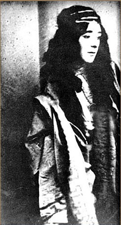 Ahmed Agdamski in Uzeyir Hajibeyov's 1908 opera Leyli and Majnun